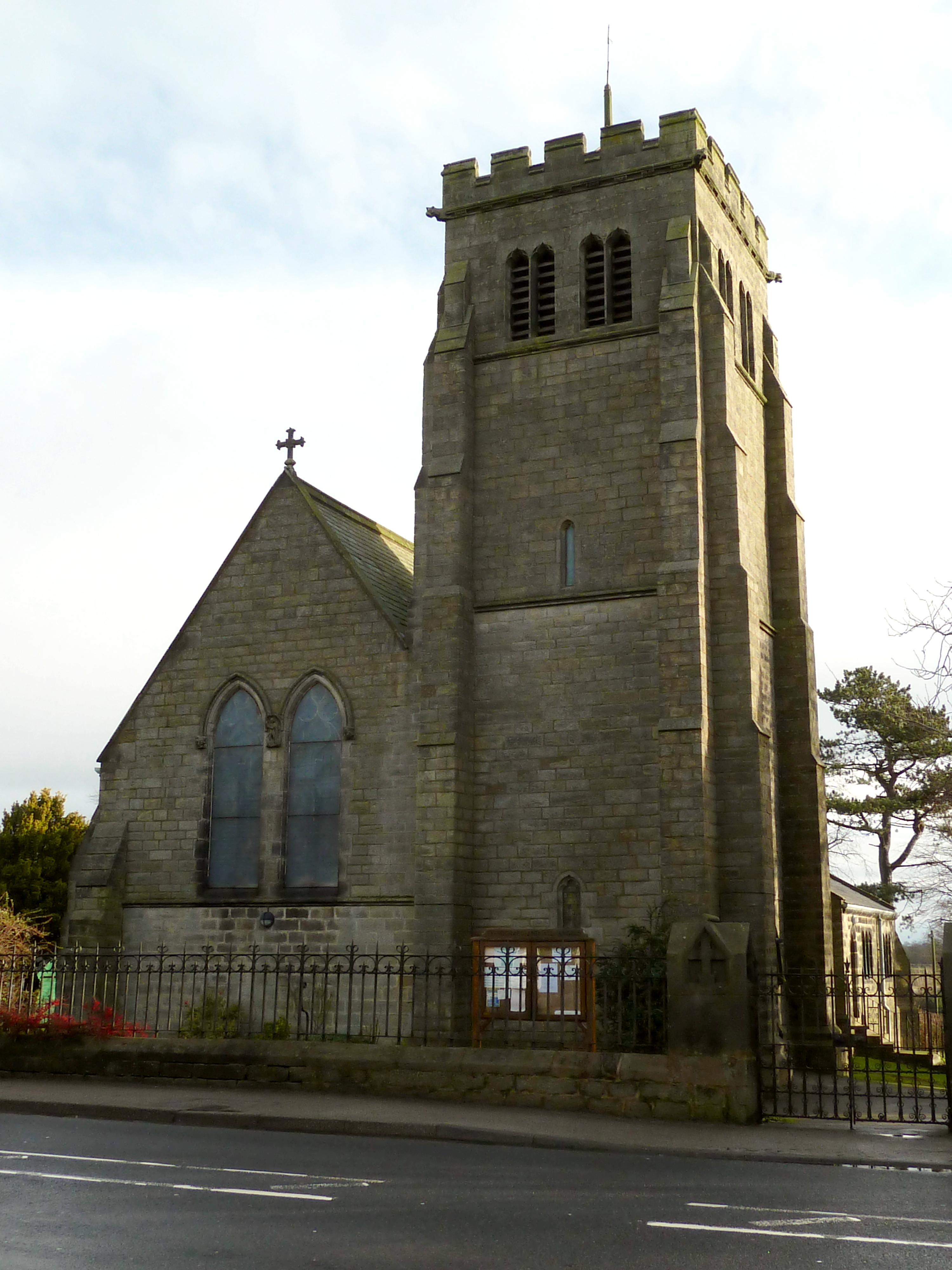 St Michael and All Angels Church, Beckwithshaw, North Yorkshire, England. Viewed from west-south-west.